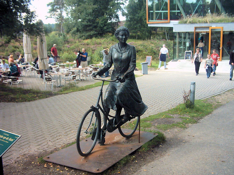 Statue of Queen Beatrix of the Netherlands by Daphné du Barry in Rheden, The Netherlands.